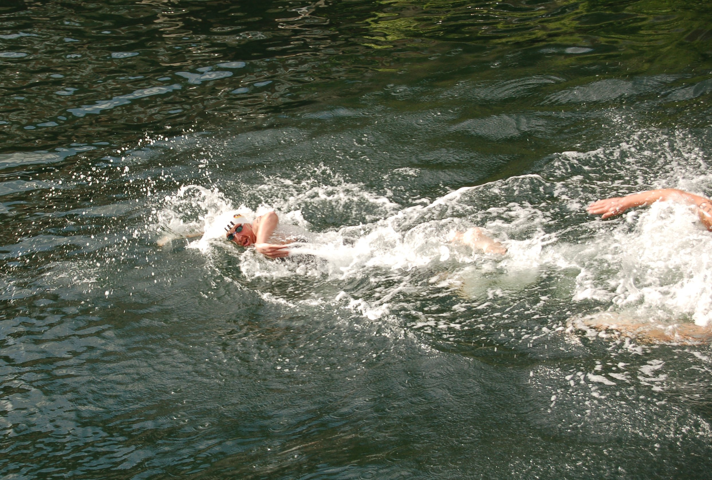 Thomas Lurz finishing the 10K World Cup event in Copenhagen, Denmark, 2009.